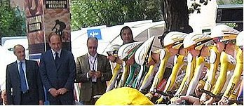 Cropped version of File:Venice, lido, stage-1, giro, italy 050.jpg